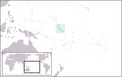 Location map for the Gilbert Islands within Kiribati.